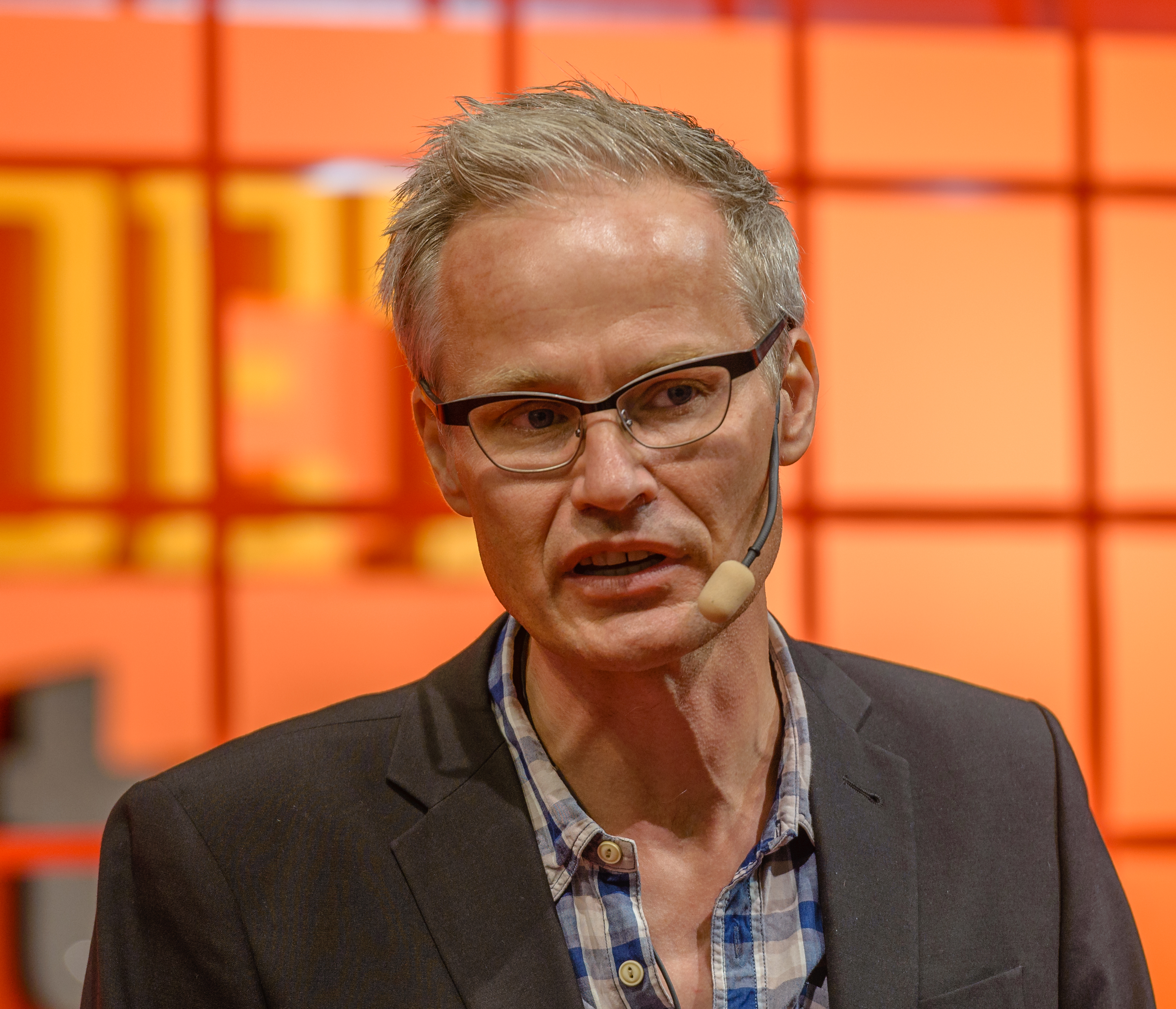 at Göteborg Book Fair 2014.